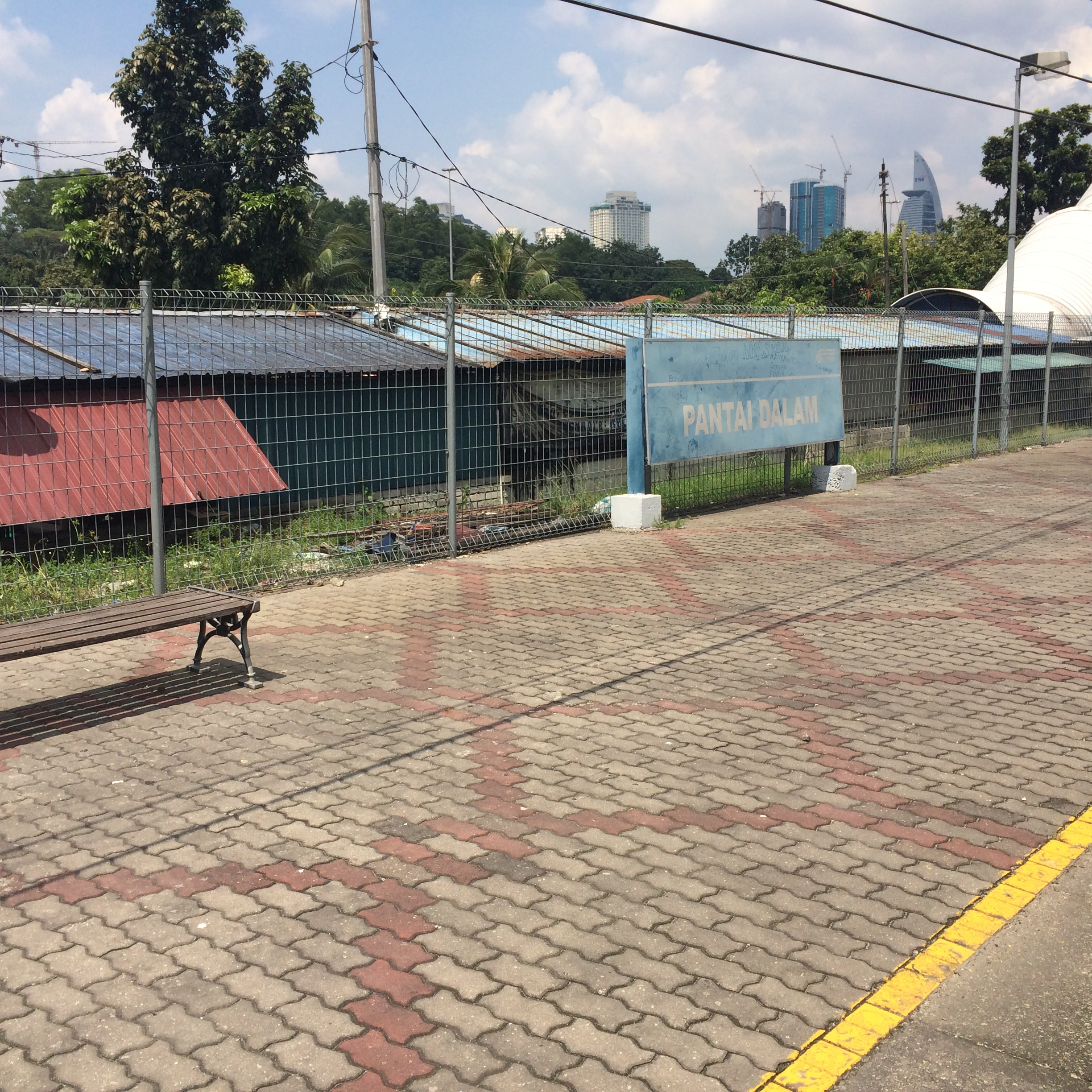 station pantai dalam